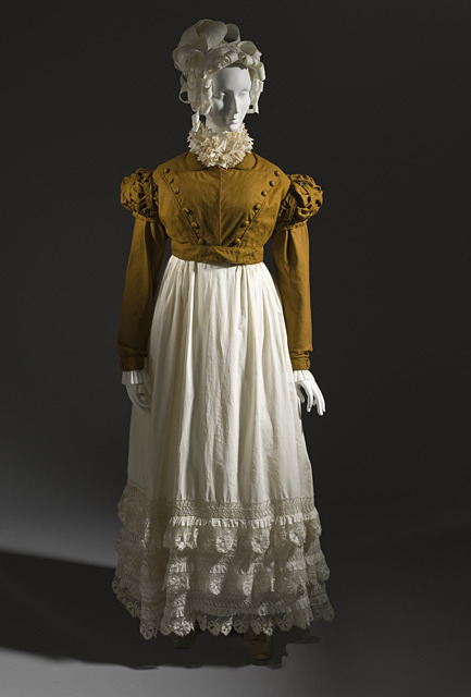 France, circa 1815 Costumes; principal attire (entire body) Jacket: cotton plain weave; skirt: cotton plain weave with linen net and cotton plain-weave appliqués Center back skirt length: 41 in. (104.14 cm); Center back spencer length: 13 in. (33.02 cm) Purchased with funds provided by Suzanne A. Saperstein and Michael and Ellen Michelson, with additional funding from the Costume Council, the Edgerton Foundation, Gail and Gerald Oppenheimer, Maureen H. Shapiro, Grace Tsao, and Lenore and Richard Wayne (M.2007.211.15a-b) Costume and Textiles